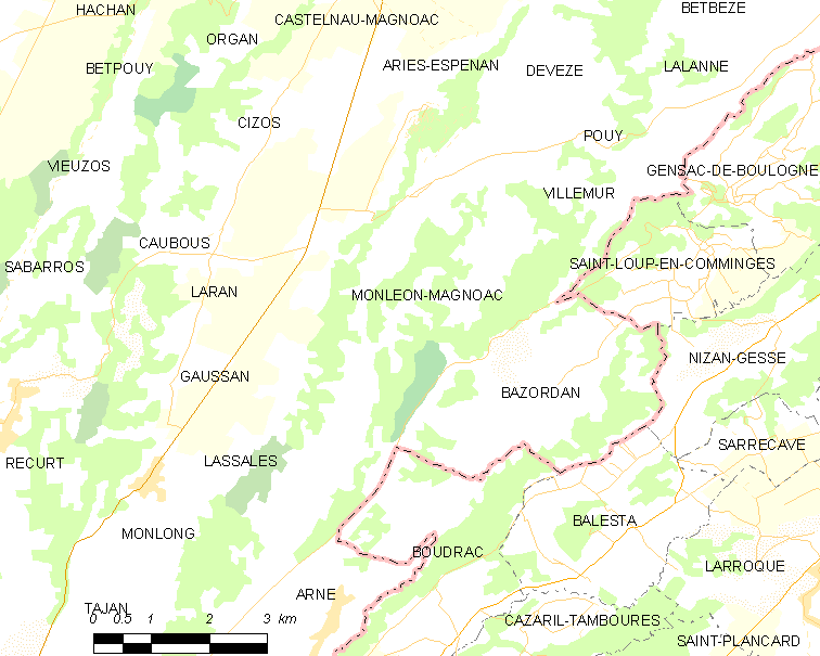 Map of French municipality